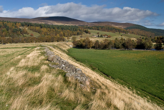 River terrace downstream of Crathie The terrace is well defined in this area. Geallaig Hill is the summit on the skyline.